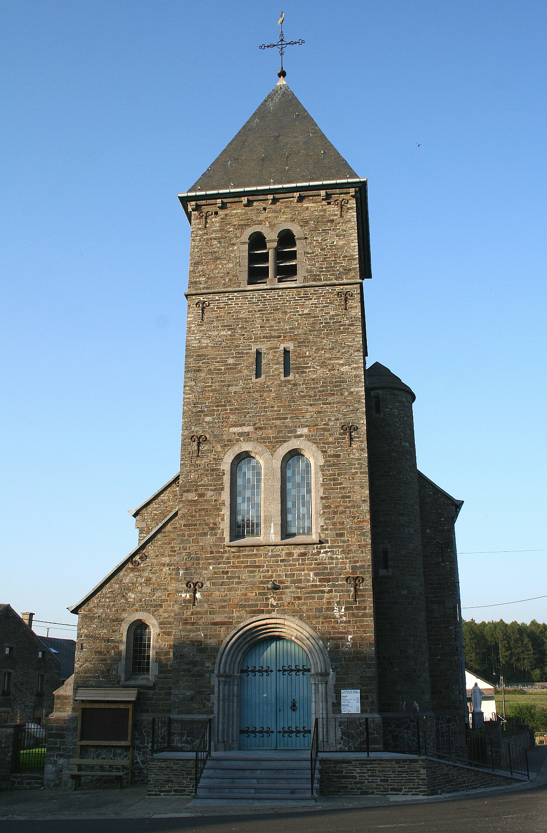 Naomé (Belgium), the St. Sebastien church (1904-1906).